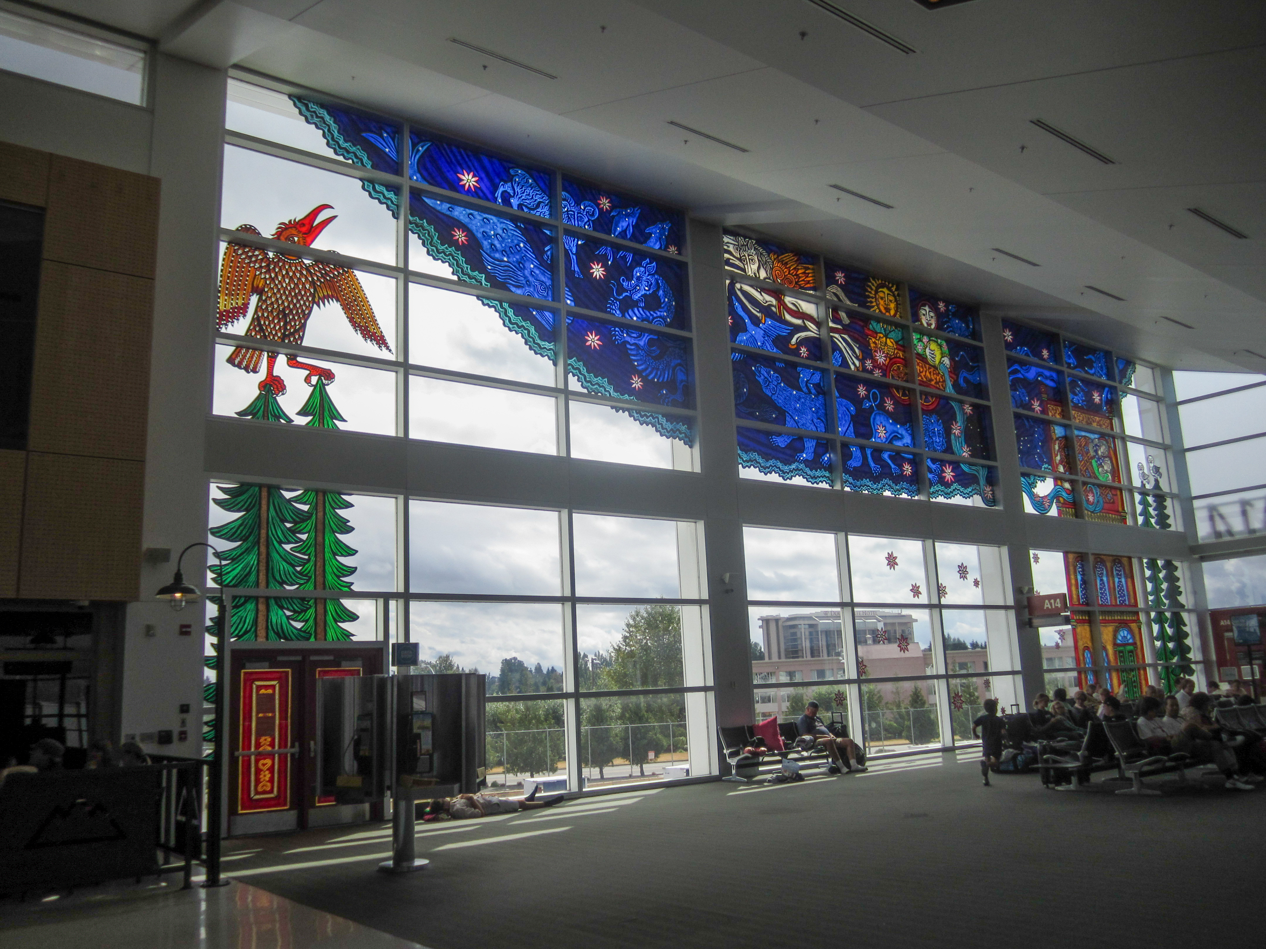 Cappy Thompson window at Seatac Airport. "I Was Dreaming of Spirit Animals"